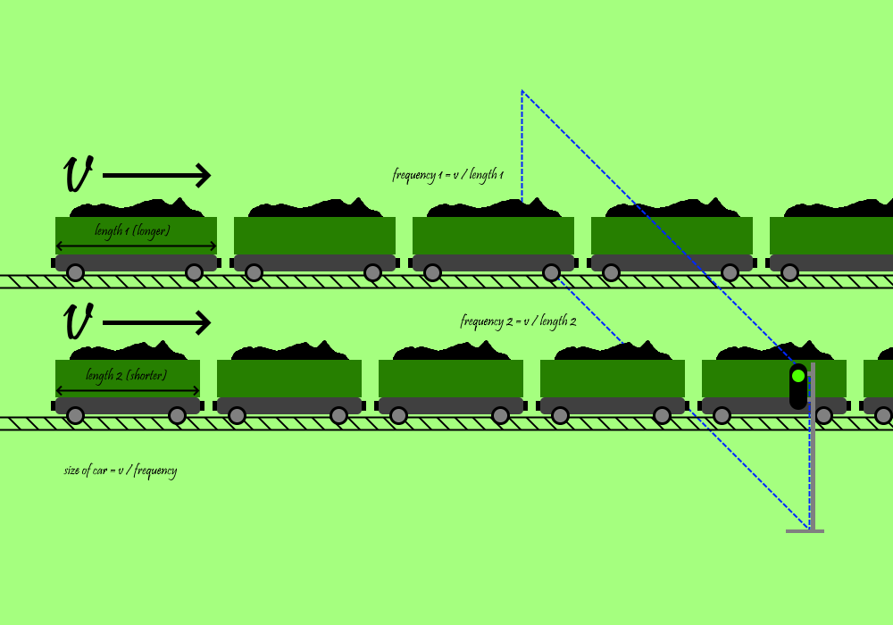 There are two trains, side-by-side. One has longer cars than the other. They are both traveling at the same speed, "v". A signal post stands as a reference for sampling frequency of passing trains per a period of time.